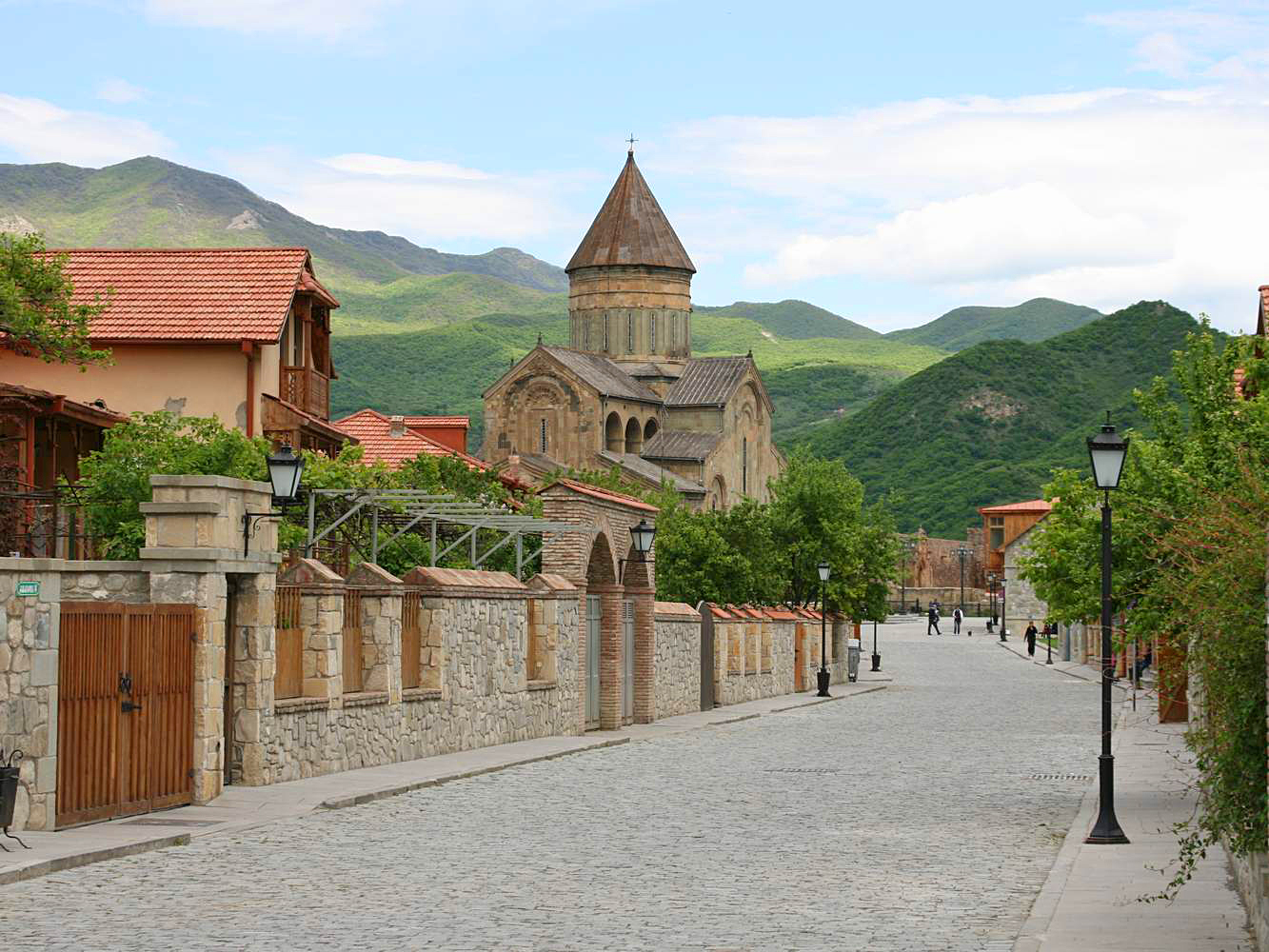 Gamsakhurdia street, Mtskheta, Georgia